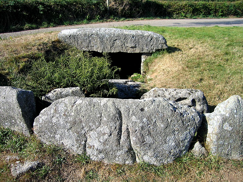 Tregiffian - barrow with burial chamber - Cornwall - UK